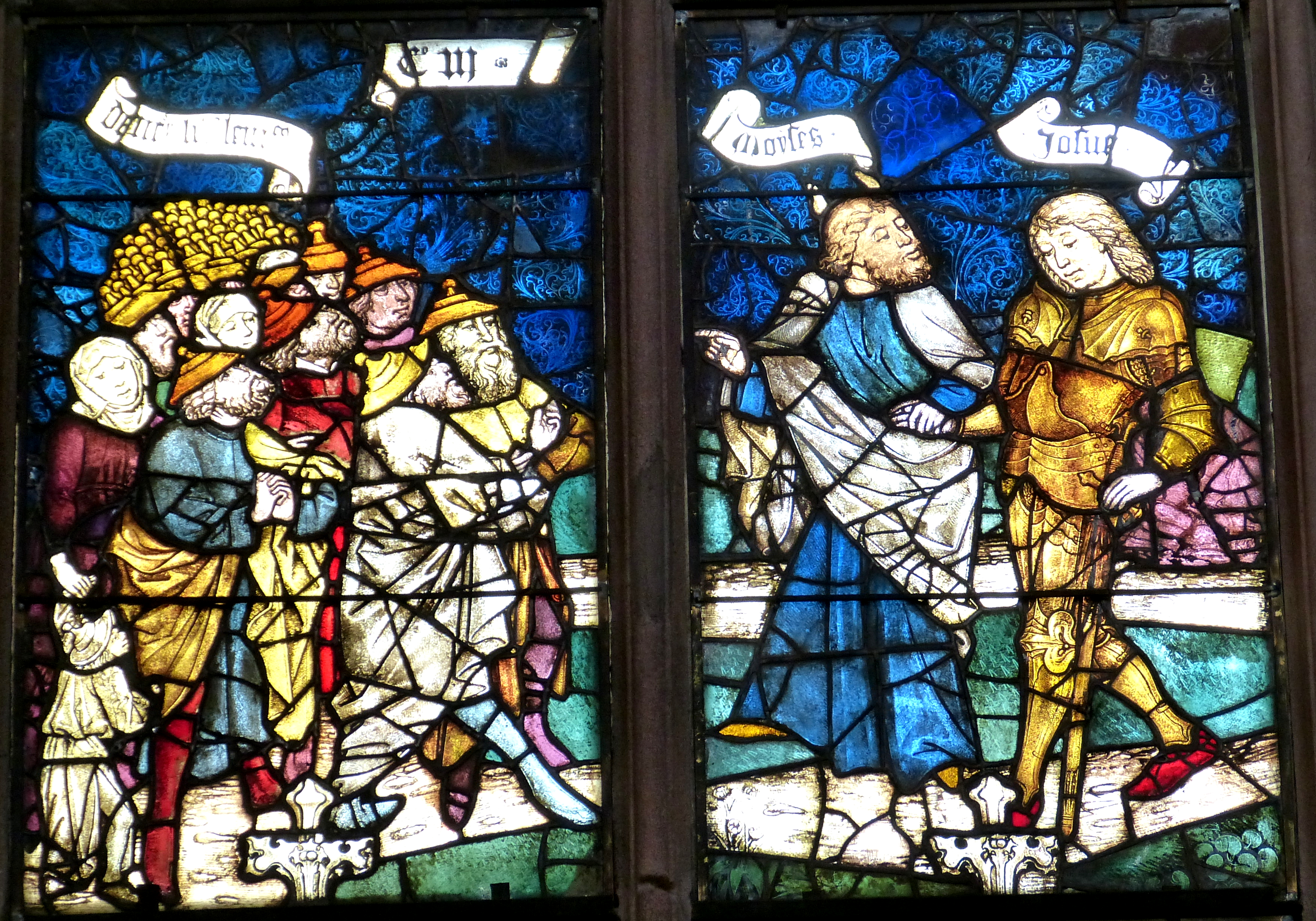 Nuremberg ( Middle Franconia ). Saint Lawrence parish church: Stained glass window ( 1480 ), donated by Sebald and Peter Rieter - Joshua gets appointed as successor of Moses